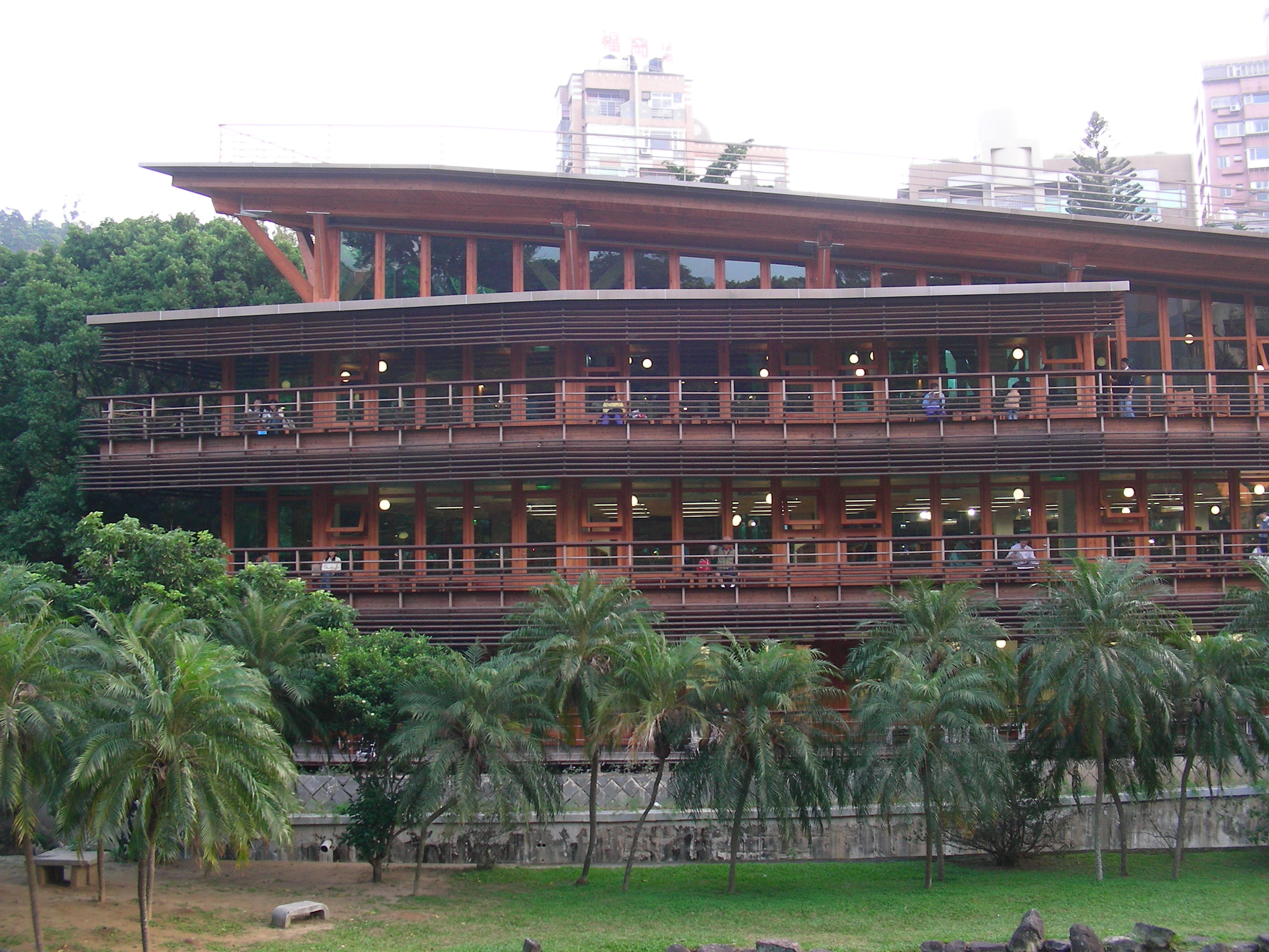 New Beitou Library